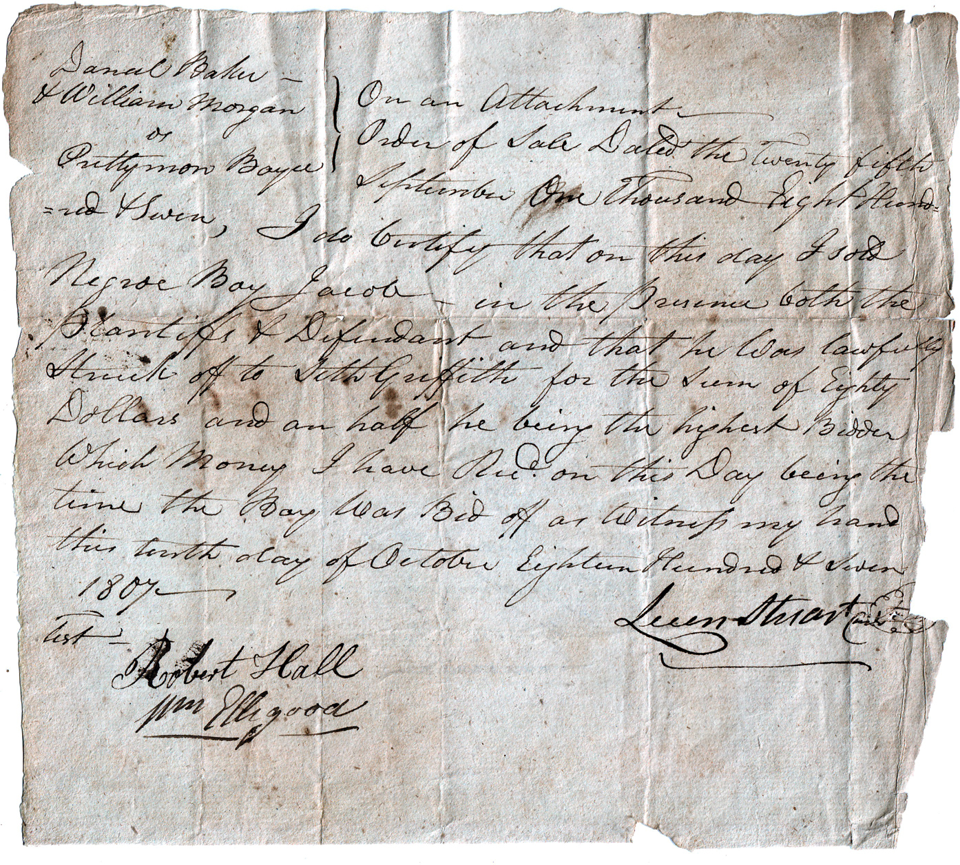 A manuscript Bill of Sale, dated October 10, 1807, for the sale at auction of the "Negro Boy Jacob" to Seth Griffith, the high bidder, for $80.50 in partial settlement of a money judgement against Prettyman Boyce, defendant, whose "property" Jacob had previously been. The Cooper Collection of U.S. Historical Documents Photograph by uploader Transcription: Daniel Baker & William Morgan vs Prettyman Boyce: On an Attachment Order of Sale dated the Twenty Fifth of September One Thousand Eight Hundred and Seven, I do Certify that on this day I sold Negro Boy Jacob in the presence [of] both the Plaintiffs and Defendant and that he was lawfully struck off to Seth Griffith for the sum of Eighty Dollars and a half, he being the highest Bidder, which money I have Recd. on this day being the time the Boy was Bid off as witness my hand this tenth day of October Eighteen Hundred & Seven 1807. Iwin [?] Stuart, Const[able]. (L.S.) Attest: Robert Hall, Wm. Elligood